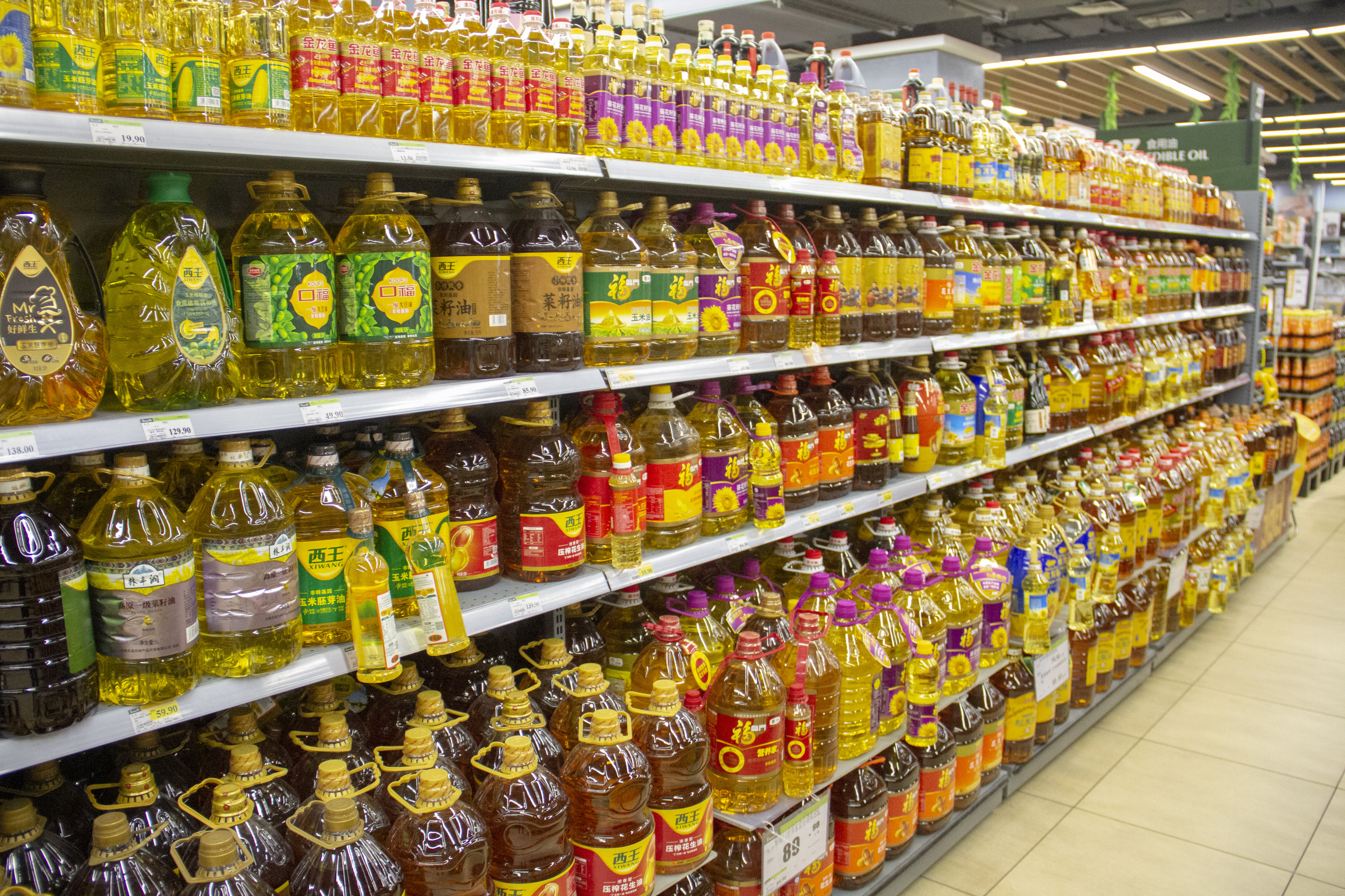 Cooking oils on a shelf